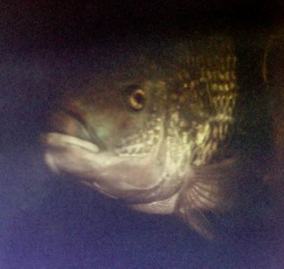 Oreochromis mossambicus, from "Os de Chagrin" - by composer Yuri Khanon